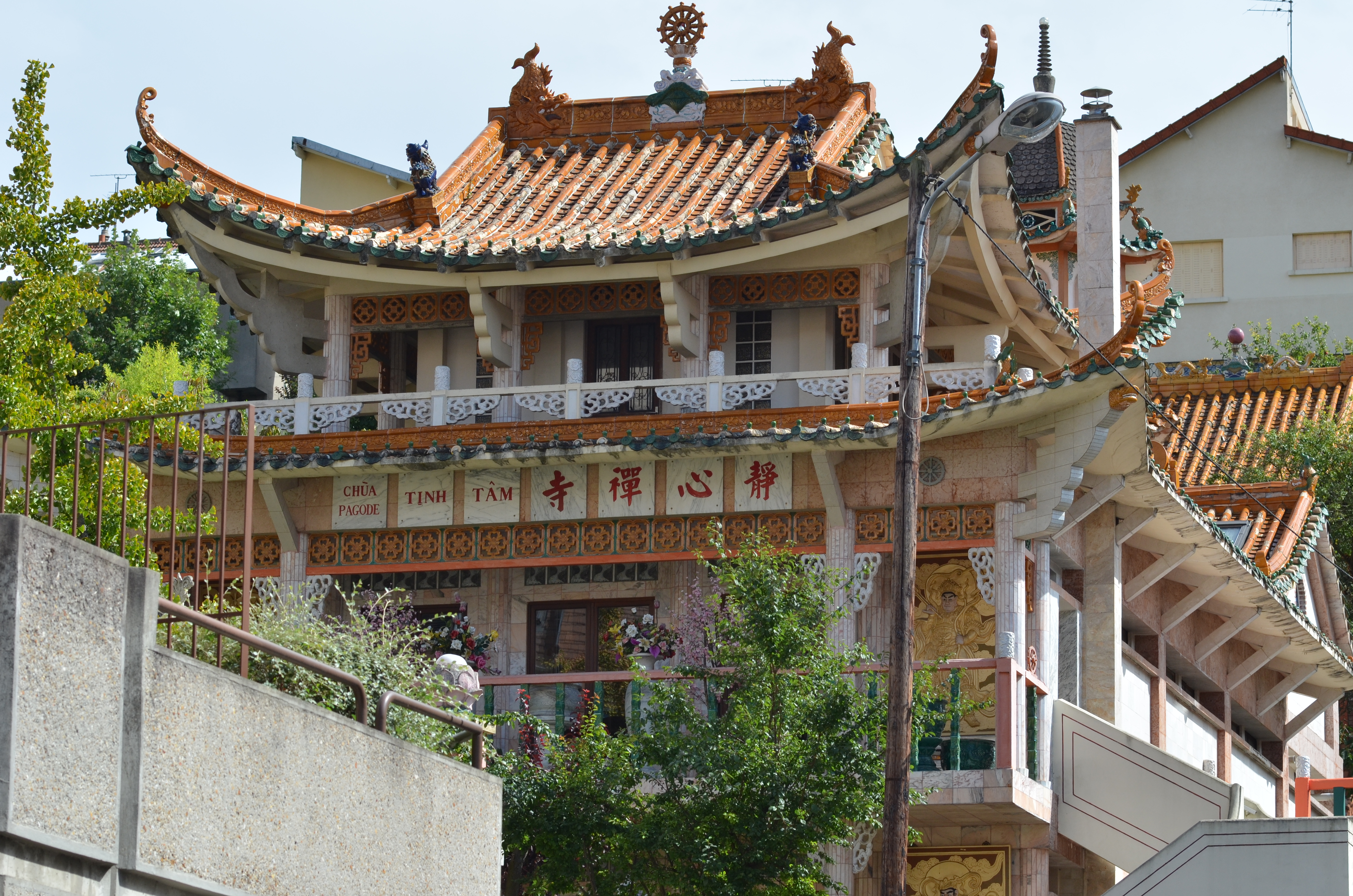 Tinh Tam pagoda, a sino-vietnamese buddhist pagoda in Sèvres (Hauts-de-Seine, France).